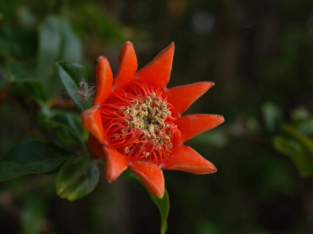 Flower of pomegranate, photo 2008